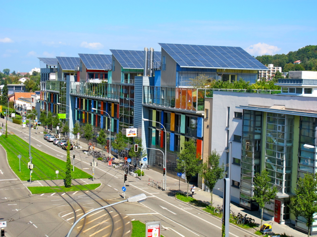 Solarschiff (Solar ship) in the residential area Solarsiedlung in Freiburg im Breisgau in Germany